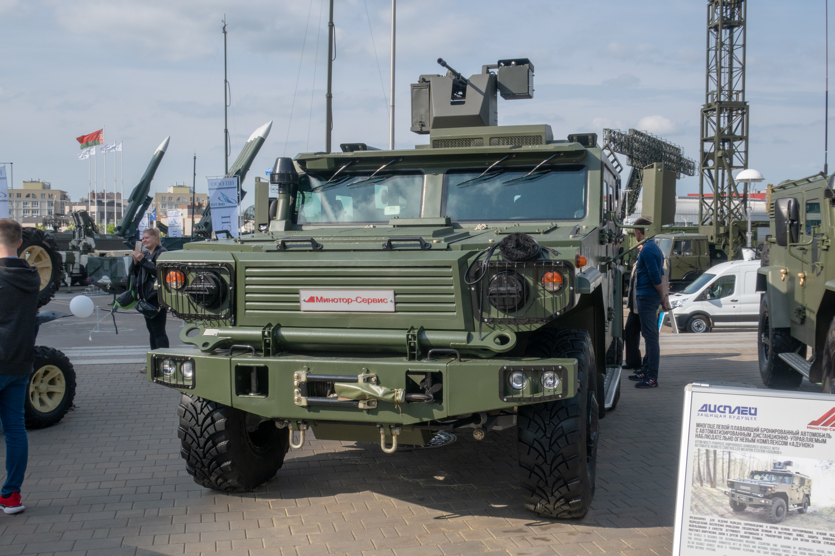 Belarusian-produced Vitim 4x4 multi-purpose amphibious armoured vehicle with "Adunok" automatic remote controlled weapon station (NSVT machine gun 12.7 mm and other options). Photo taken at Milex-2019 arms and military machinery exposition (Minsk, Belarus)